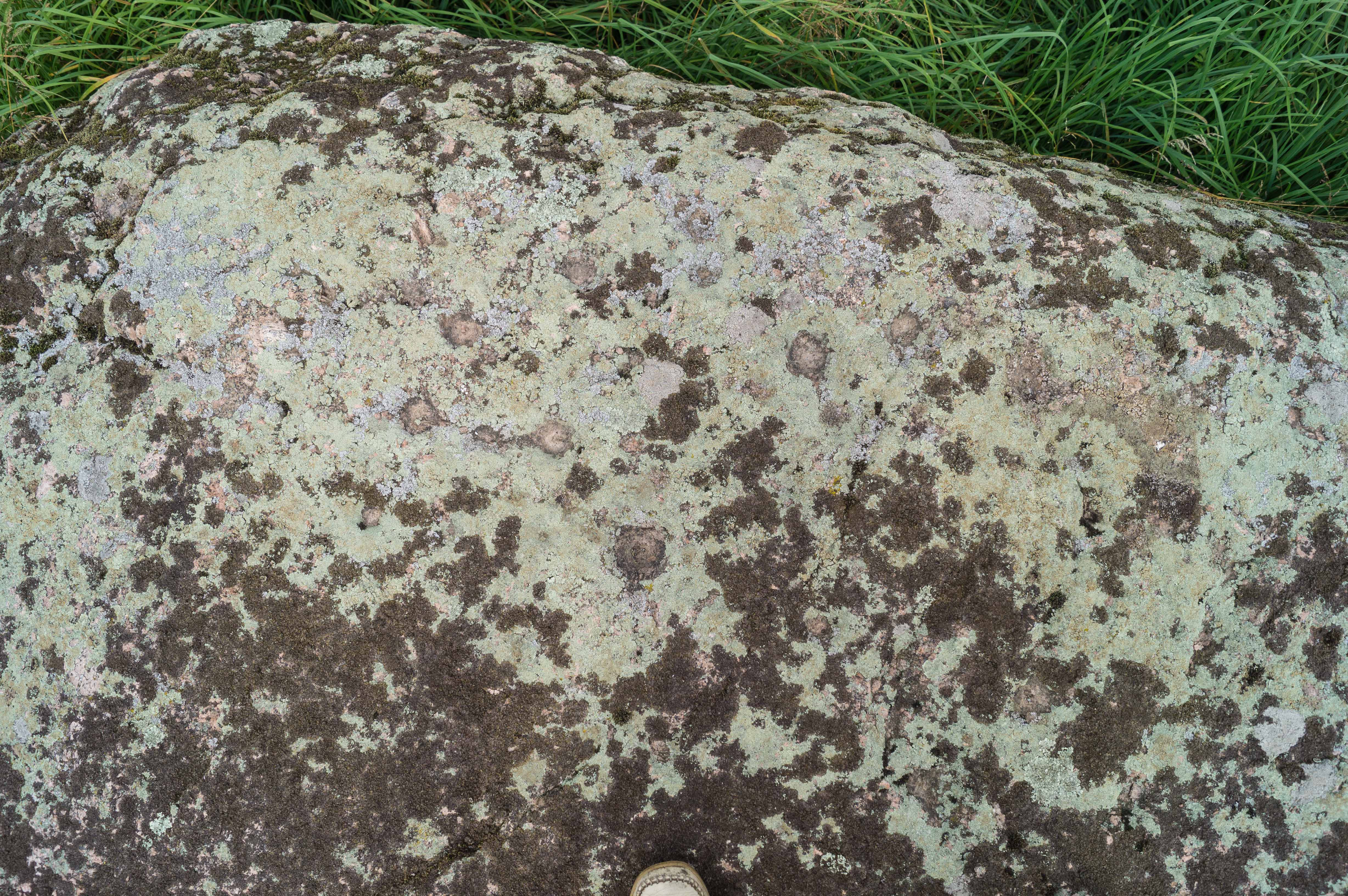 closeup of a boulder, Hlybokaje District, Belarus